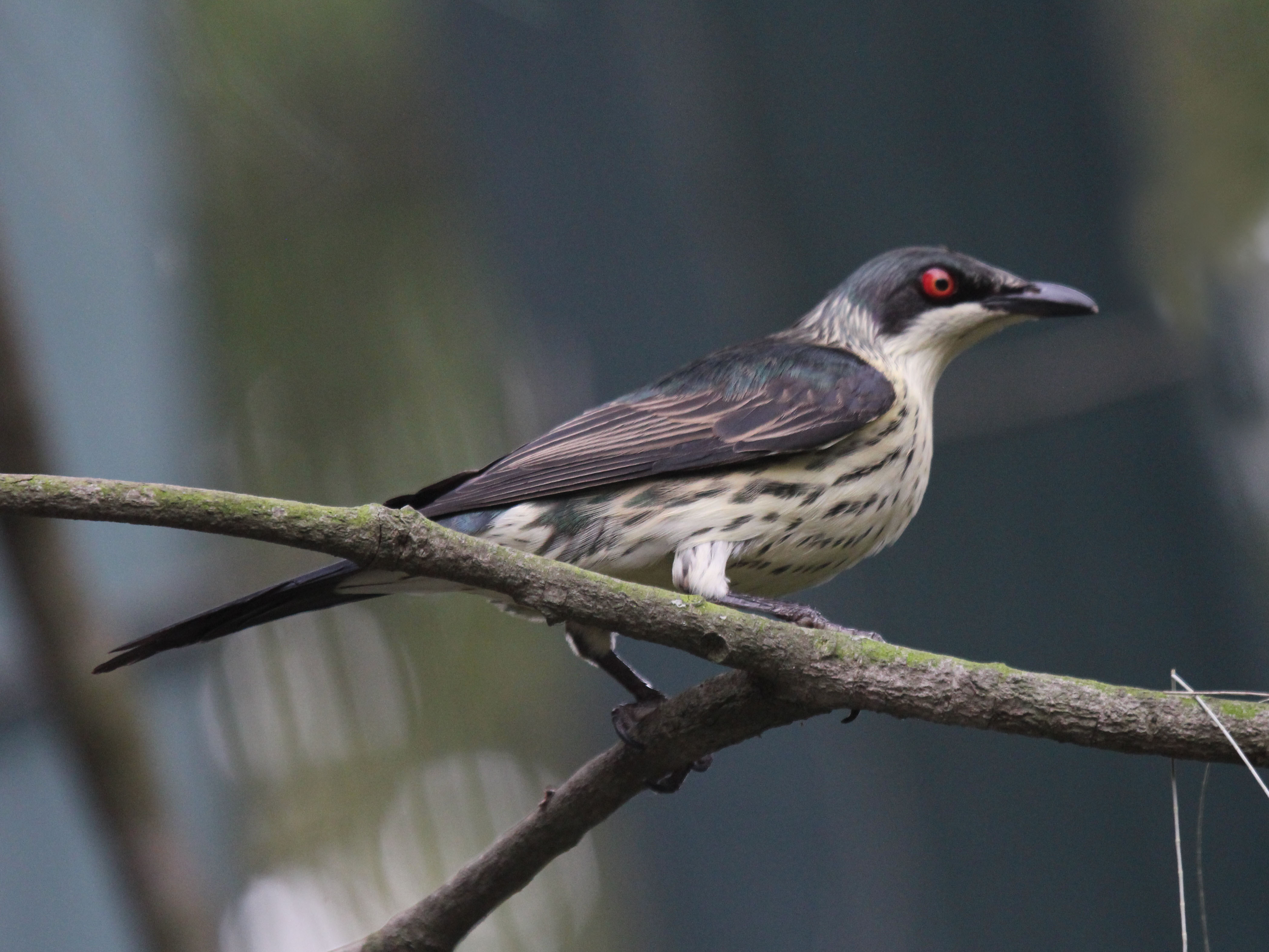 Female Metallic Starling {Aplonis metallica) - San Diego Zoo